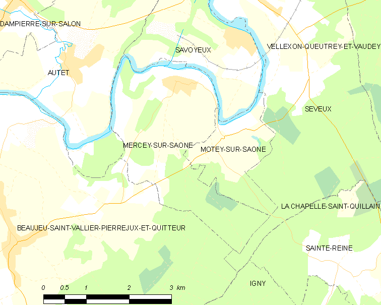 Map of French municipality